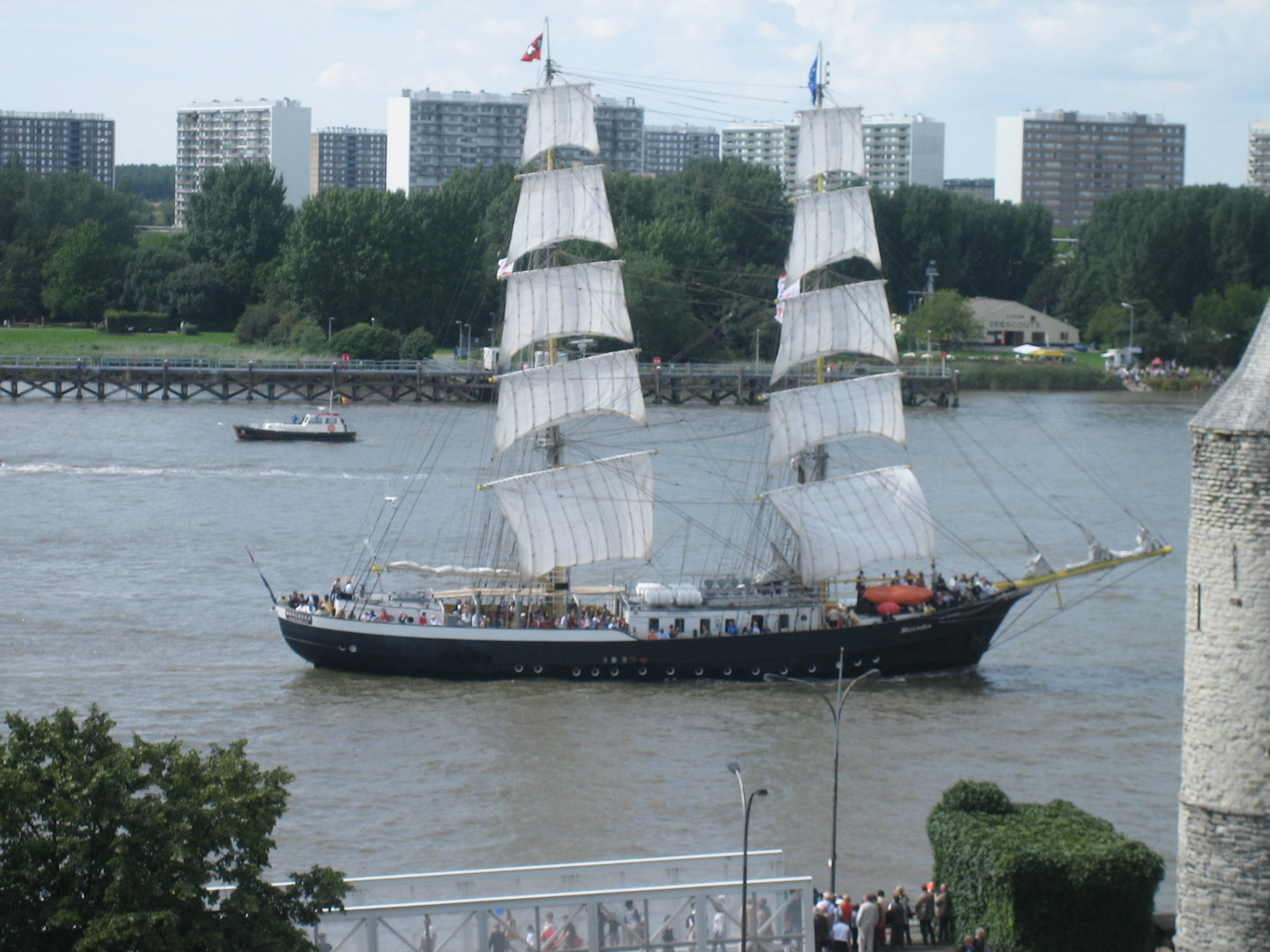 Dutch sailing ship Mercedes during Tall Ships Race, Antwerp, August 2006